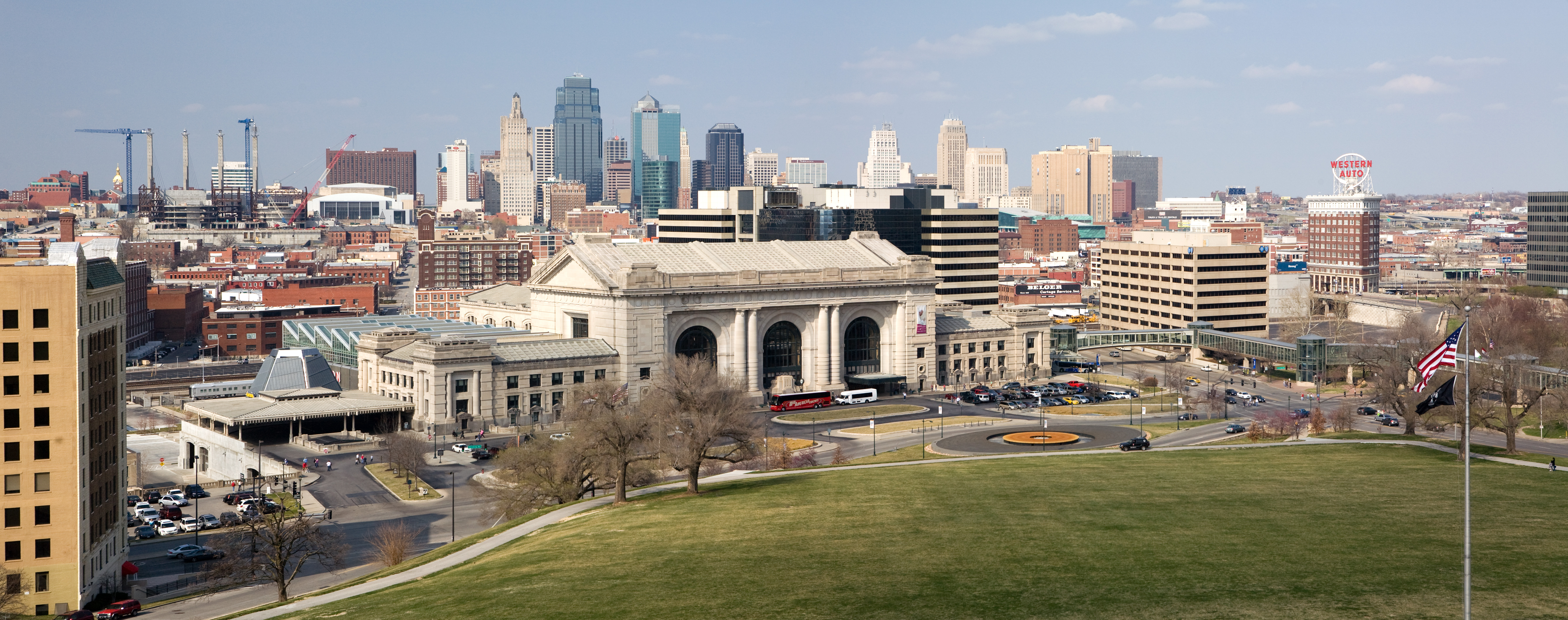 Kansas City panorama